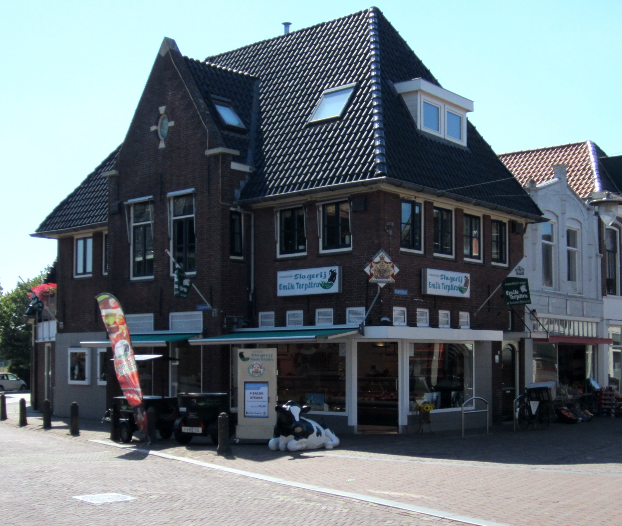 Butcher's shop Terpstra (est. 1853) in Dijkstraat, Franeker/Frjentsjer, Friesland, the Netherlands.